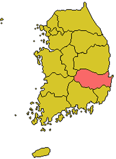 Roman catholic archdiocese of Daegu